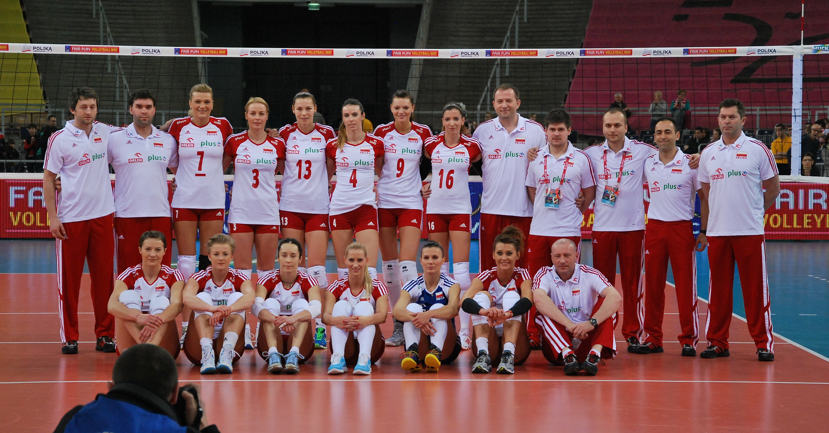 FIVB World Championship European Qualification Women Łódź January 2014. National team of Poland